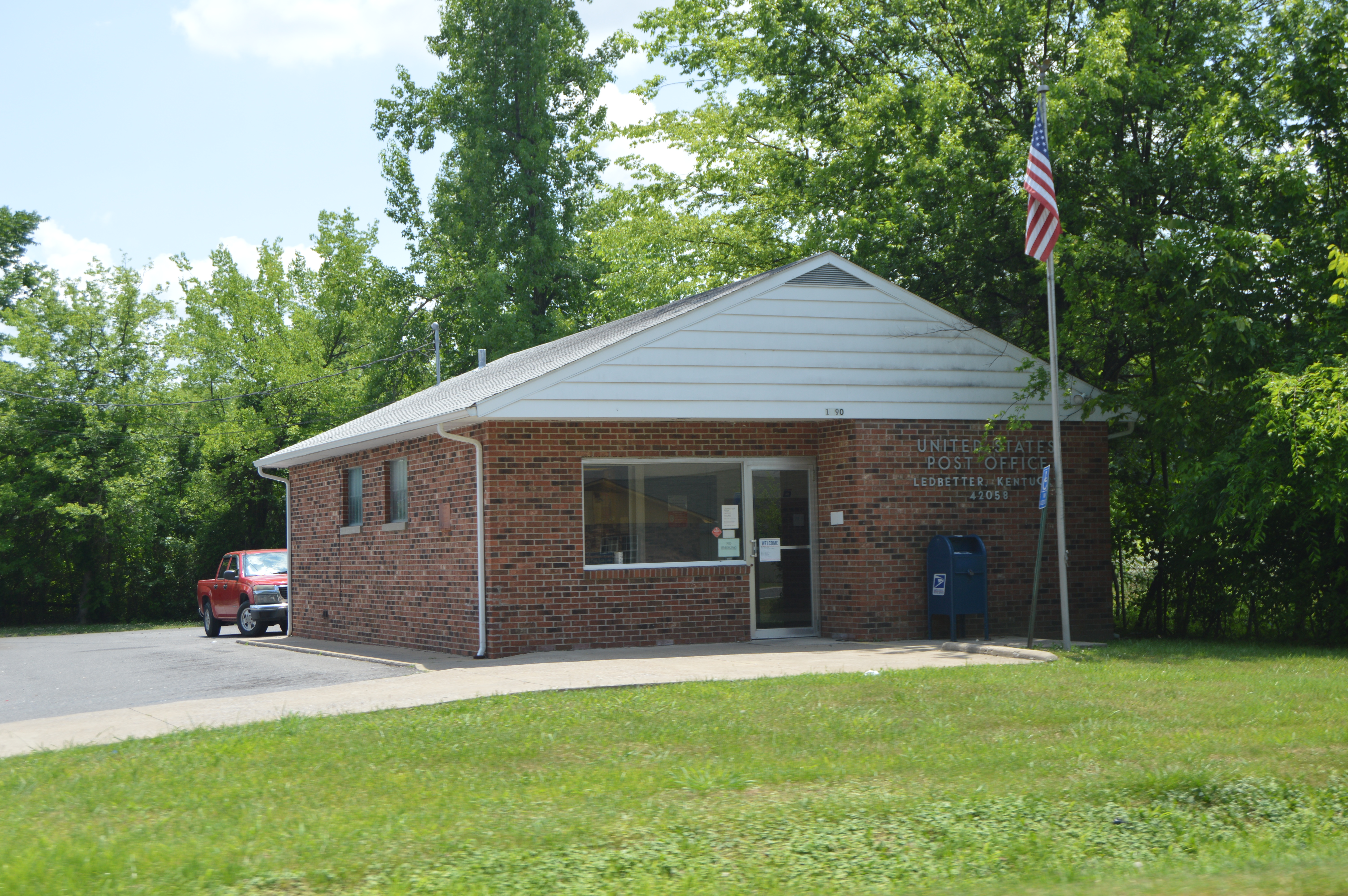 Front and eastern side of the Ledbetter post office, located at 1490 W. U.S. Route 60 in Ledbetter, Kentucky, United States.